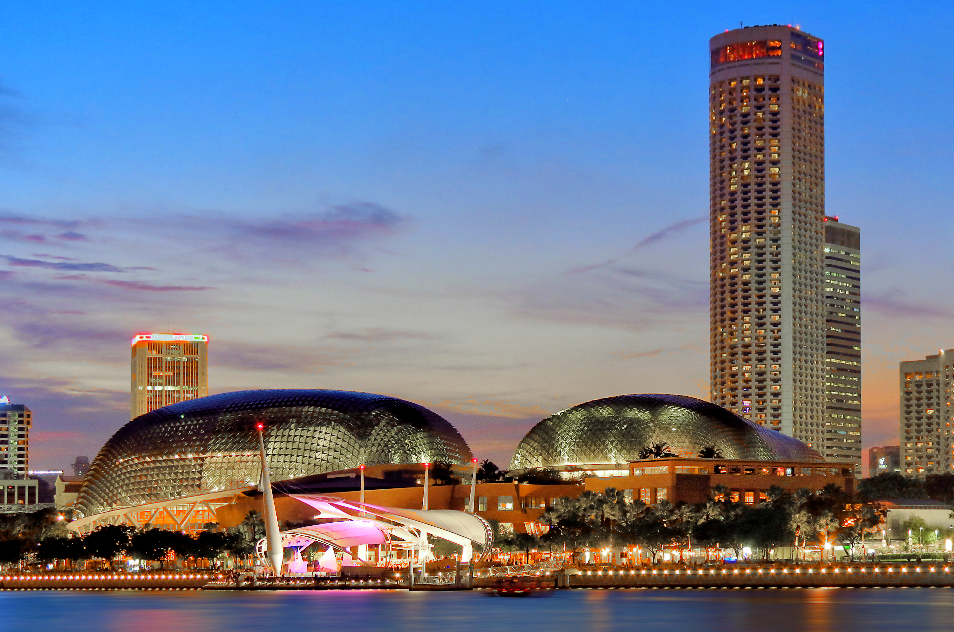 Taken with a Canon SX40HS